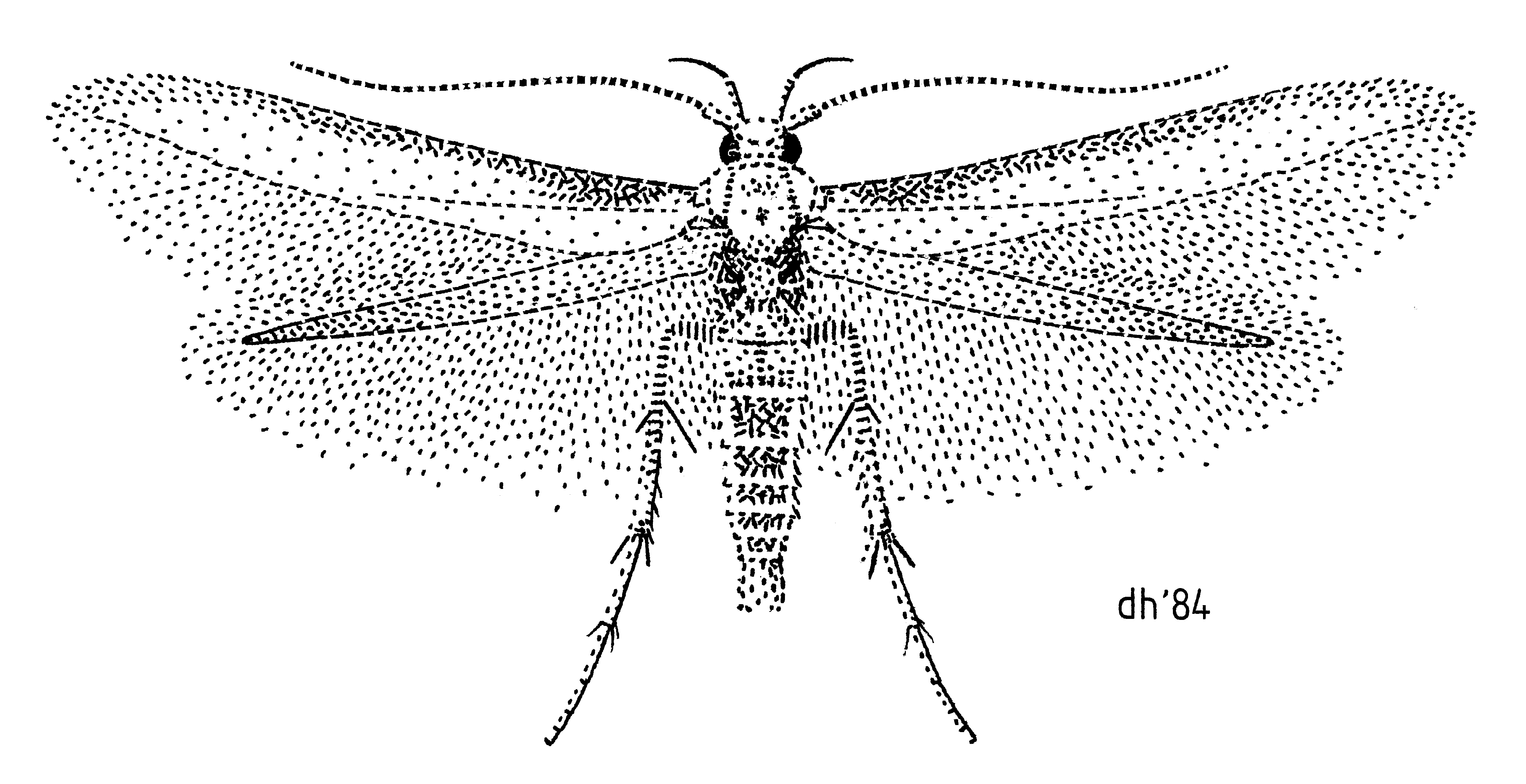 (Lepidoptera: Oecophoridae) Stathmopoda skelloni illustrated by Des Helmore.